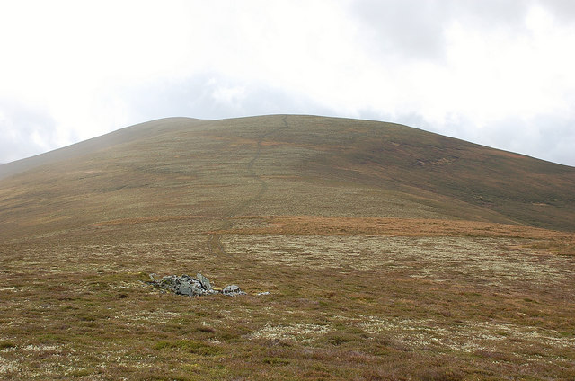 The ridge towards Carn Dearg Mor The line of an all-terrain vehicle track can be seen.